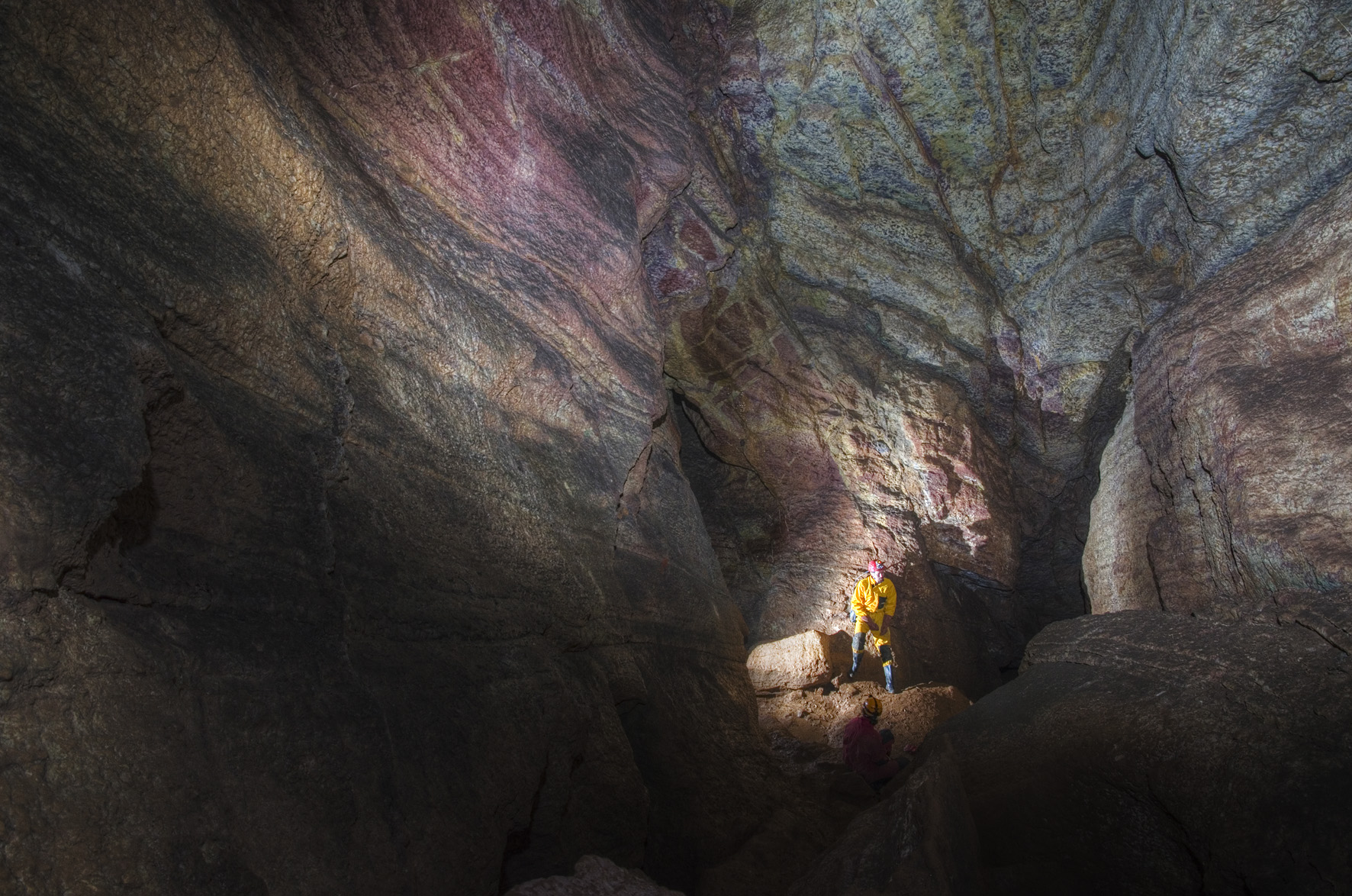 Arnoldka Cave (part Pribuv Dome) in the Bohemian Karst.